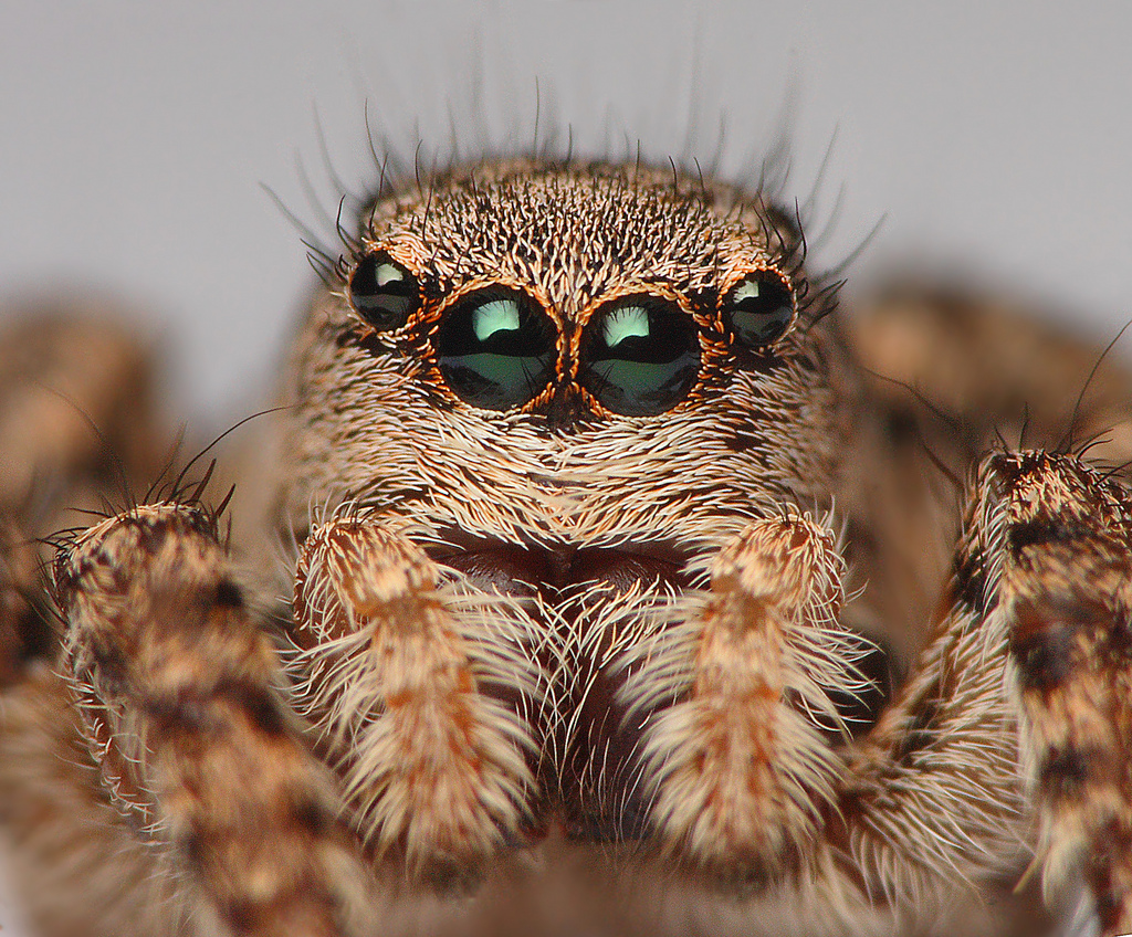 I captured this image in the Great Nemunas Loops regional park in Lithuania. This spider was indicated as new species in Lithuania.